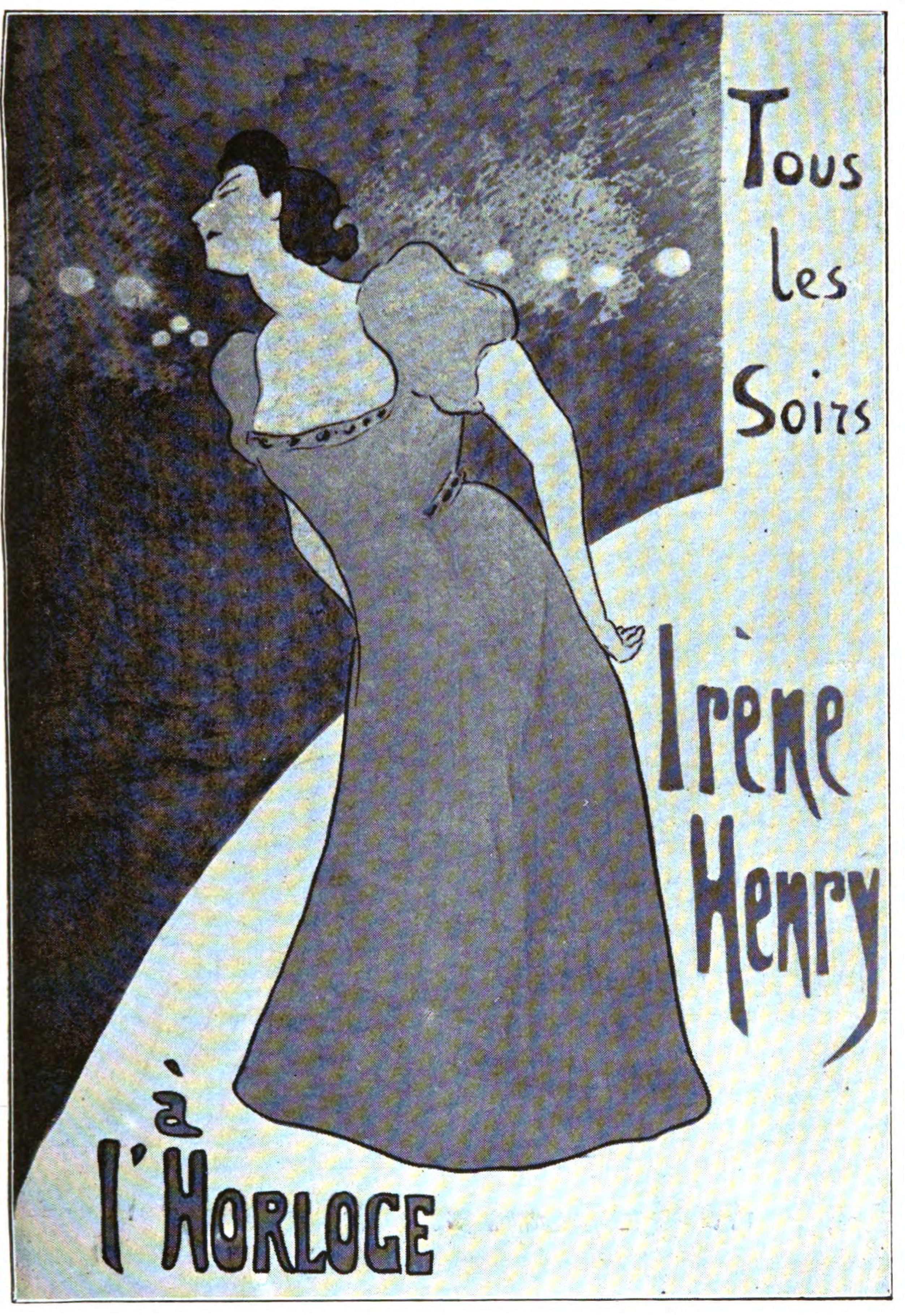 Poster by Ibels for Irene Henry performances at the l'Horloge